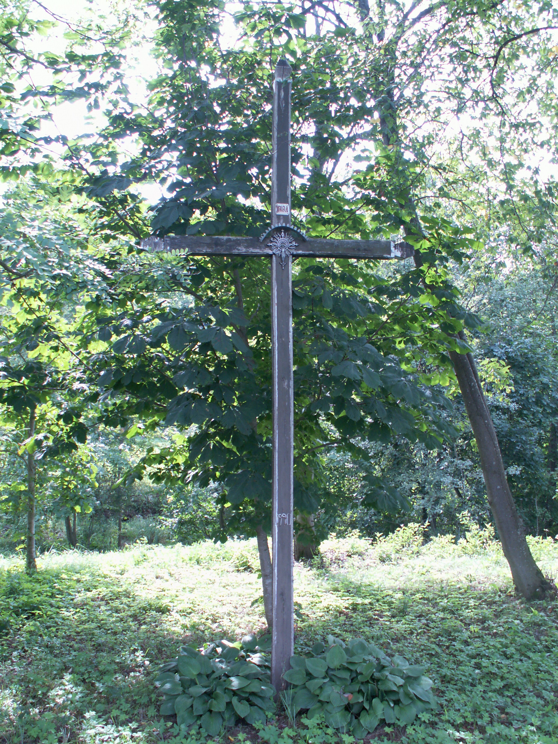 Gintarai, Vėlaičiai cross, Kretinga district, Lithuania